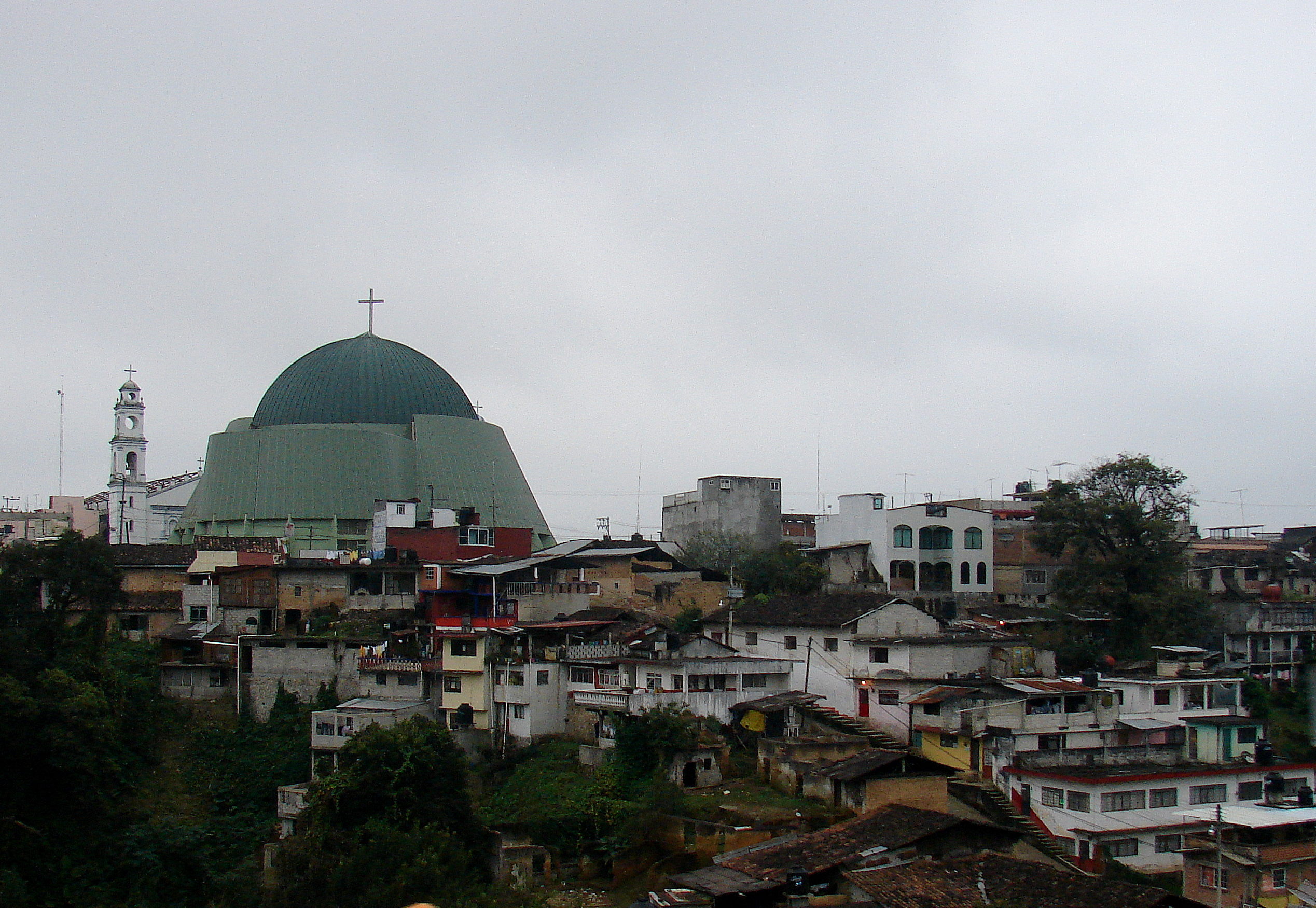 Partial view of the center of Huauchinango City, Puebla, México.